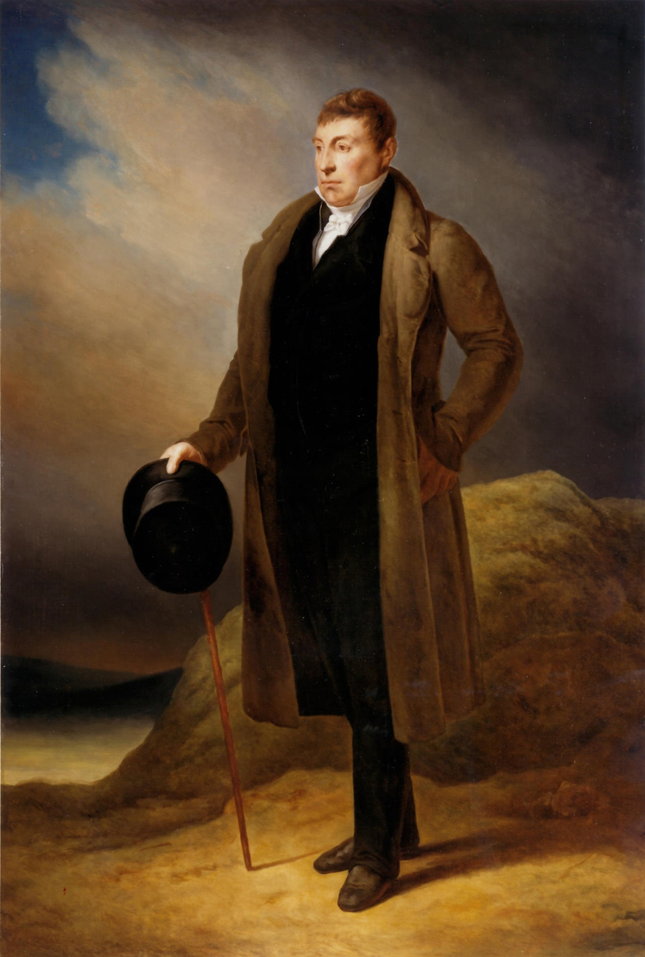 Portrait of Lafayette, gift of artist, located in old House Chamber, until 1857 when moved to the new House Chamber